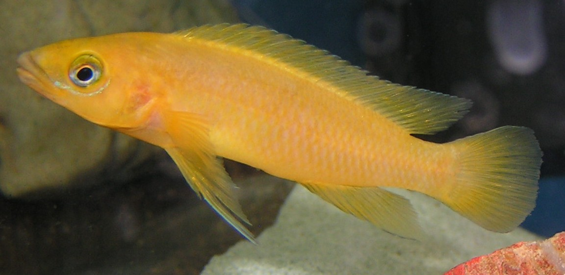 Adult Neolamprologus longior in an aquarium